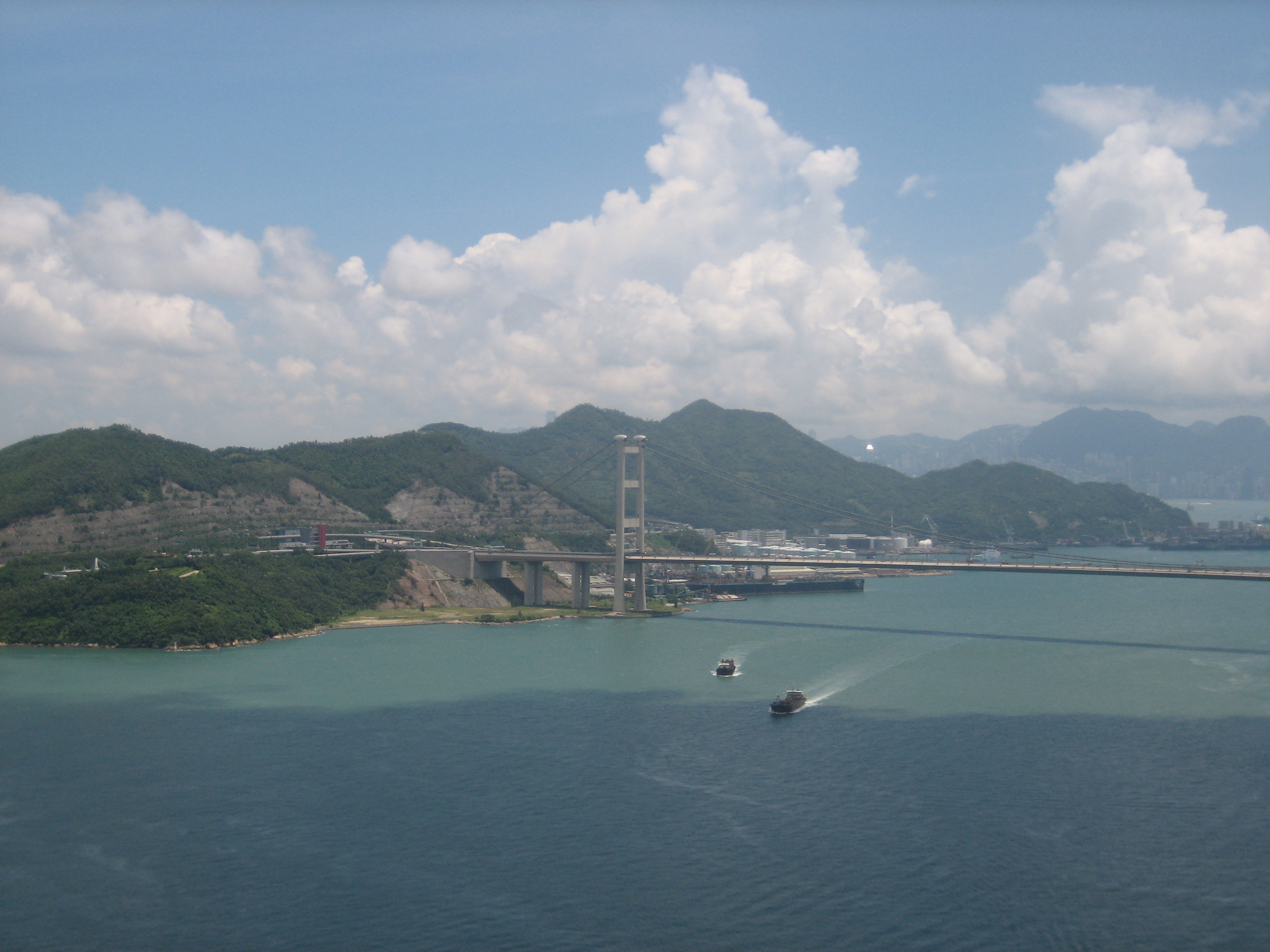 Tsing Yi West